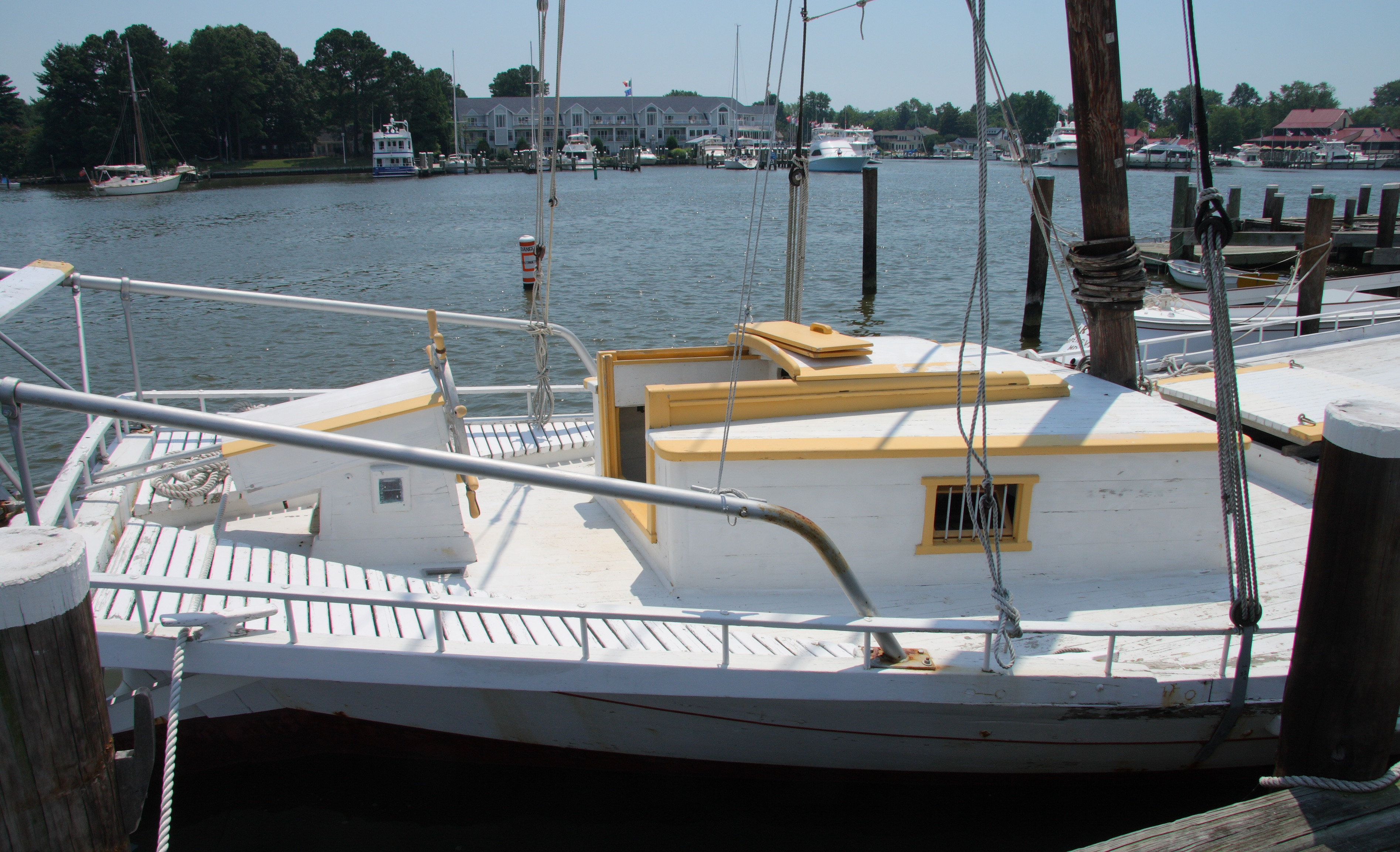 Aft end of Chesapeake Bay bugeye "Edna E. Lockwood", Chesapeake Bay Maritime Museum, Saint Michaels, Maryland